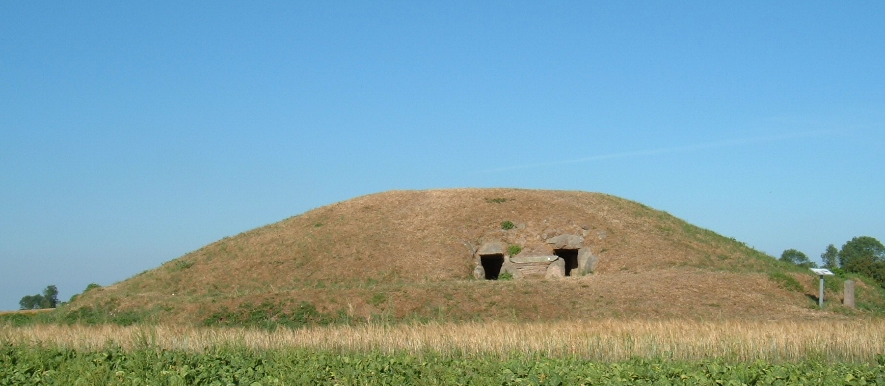 Klekkende Høj passage grave on the island of Møn in Denmark. View of outside of mound showing the double entrance passages. taken by contributor, July 2006.